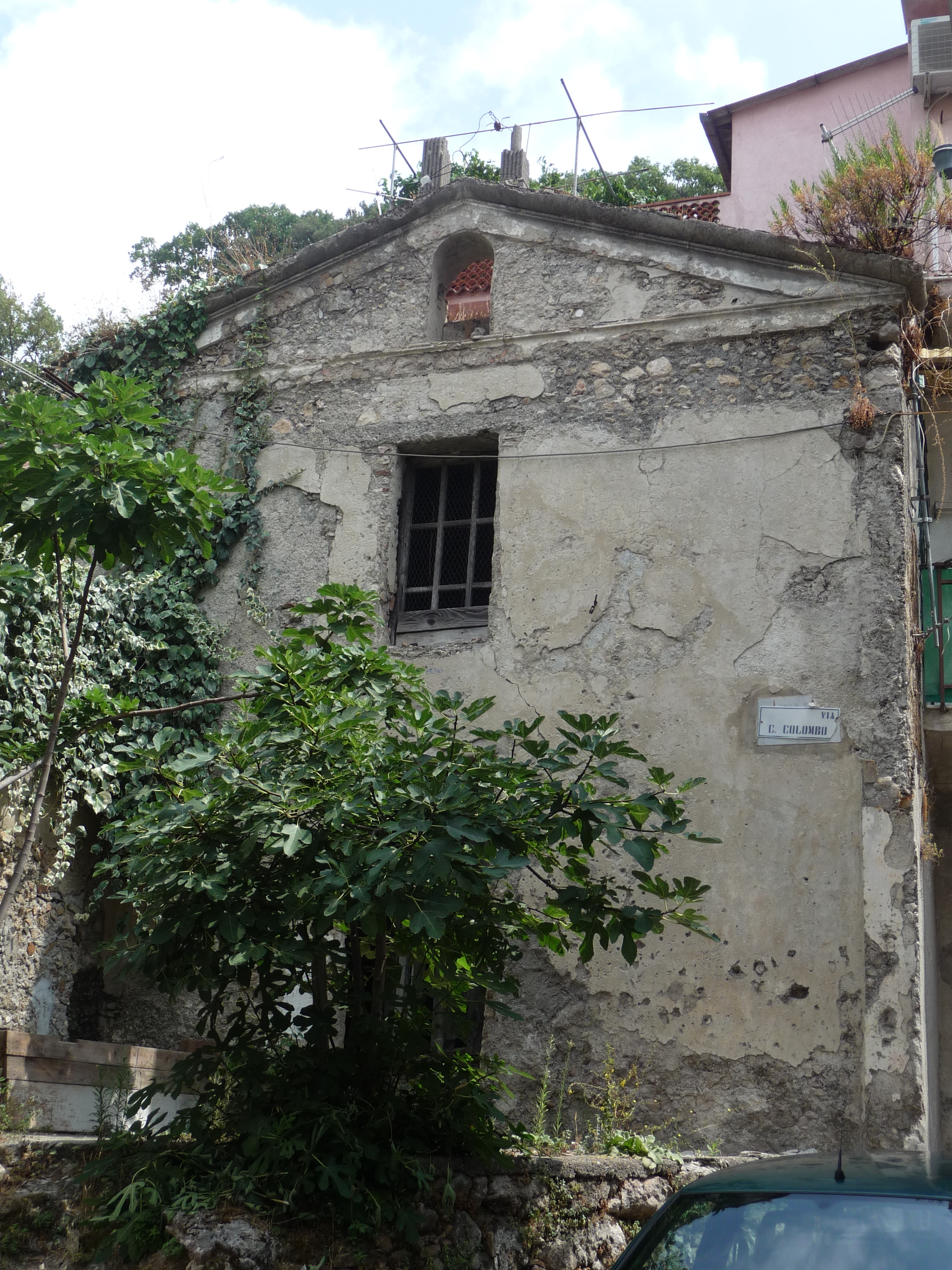 Old church of Pazzano